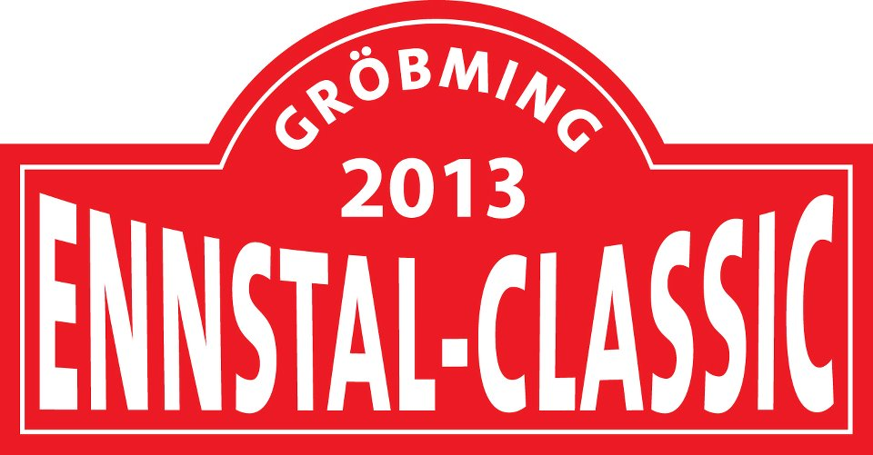 Ennstal-Classic Logo